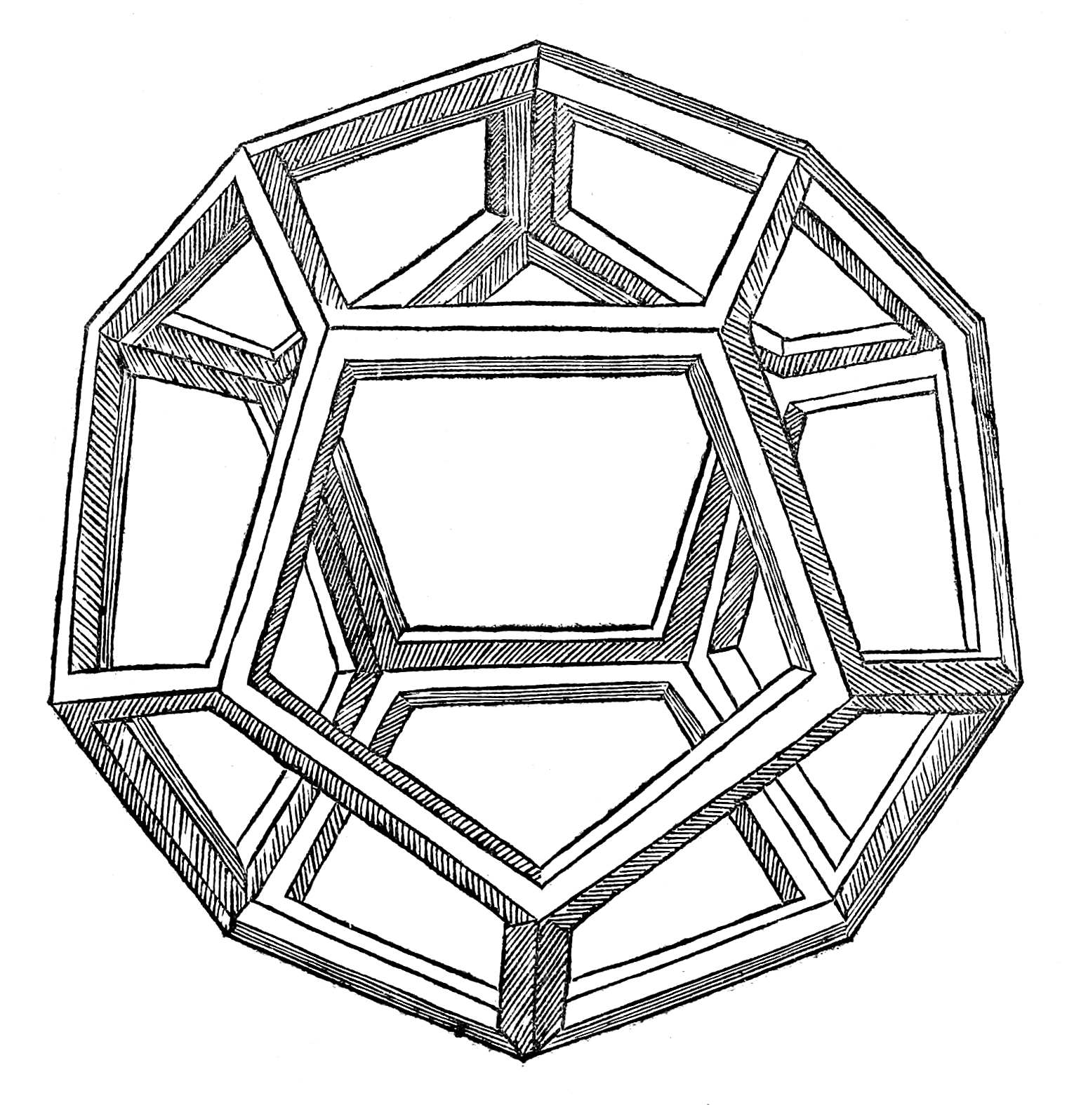 Illustration by Leonardo da Vinci, from Luca Pacioli's "Divina proportione", 1509 edition